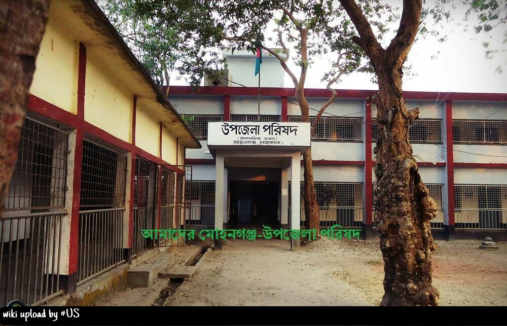 It's my upazilla parisod